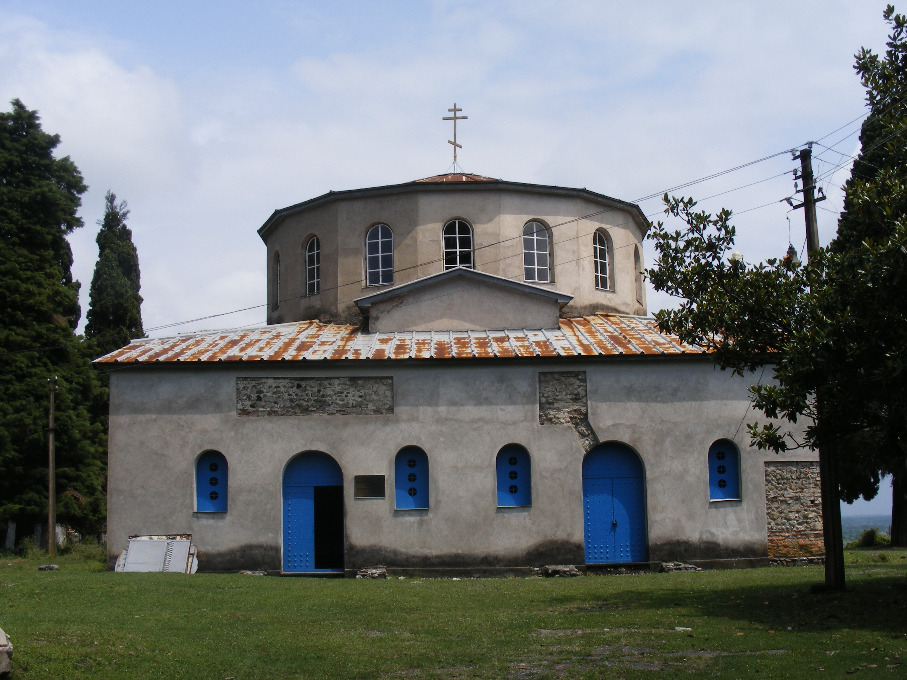 Façade of the Dranda Cathedral, Abkhazia